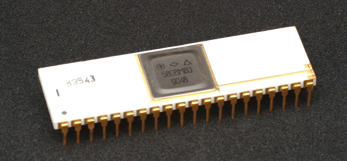 CPU 580VM80 (= Intel i8080)